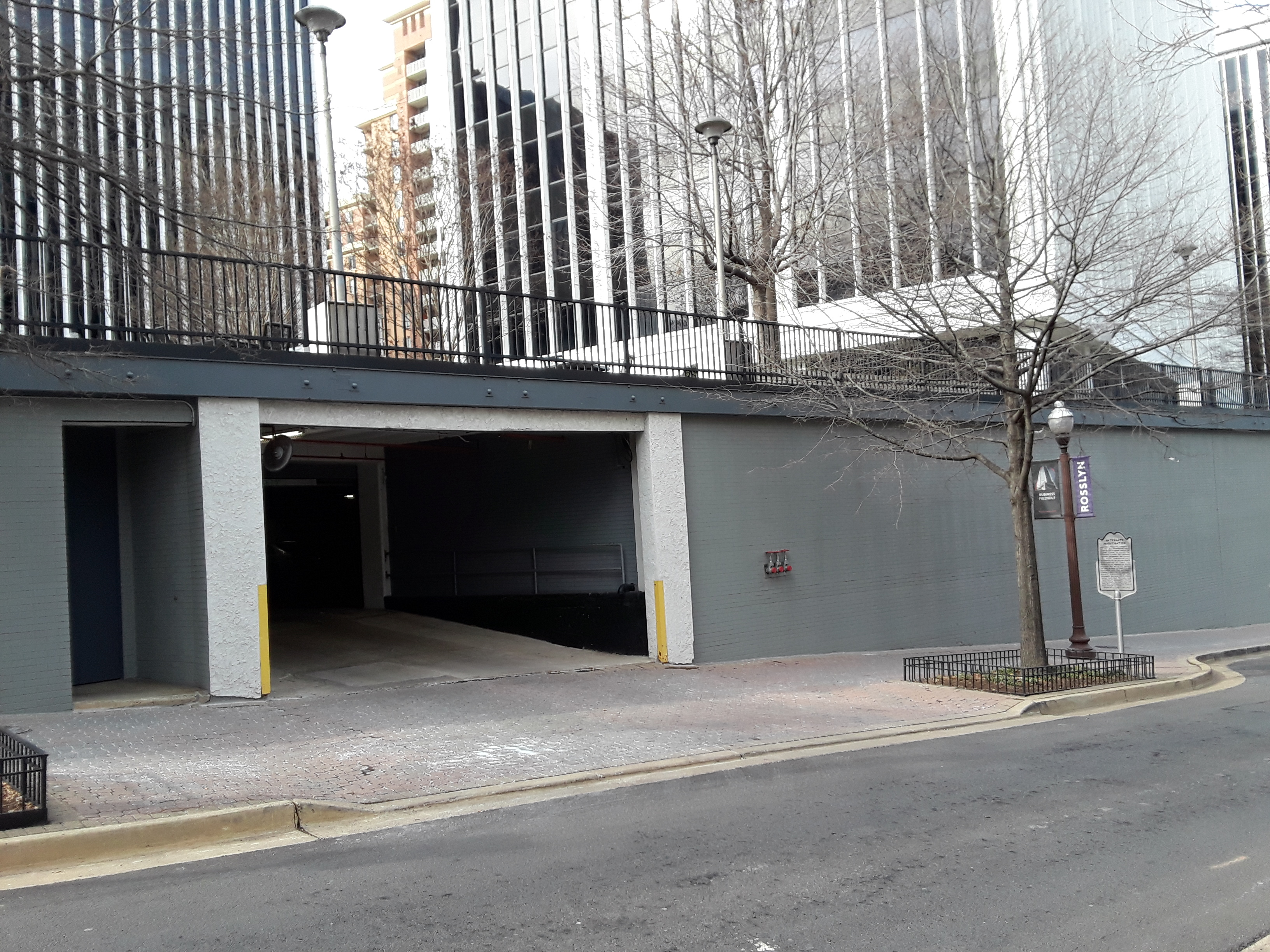 Rosslyn, Arlington, Virginia